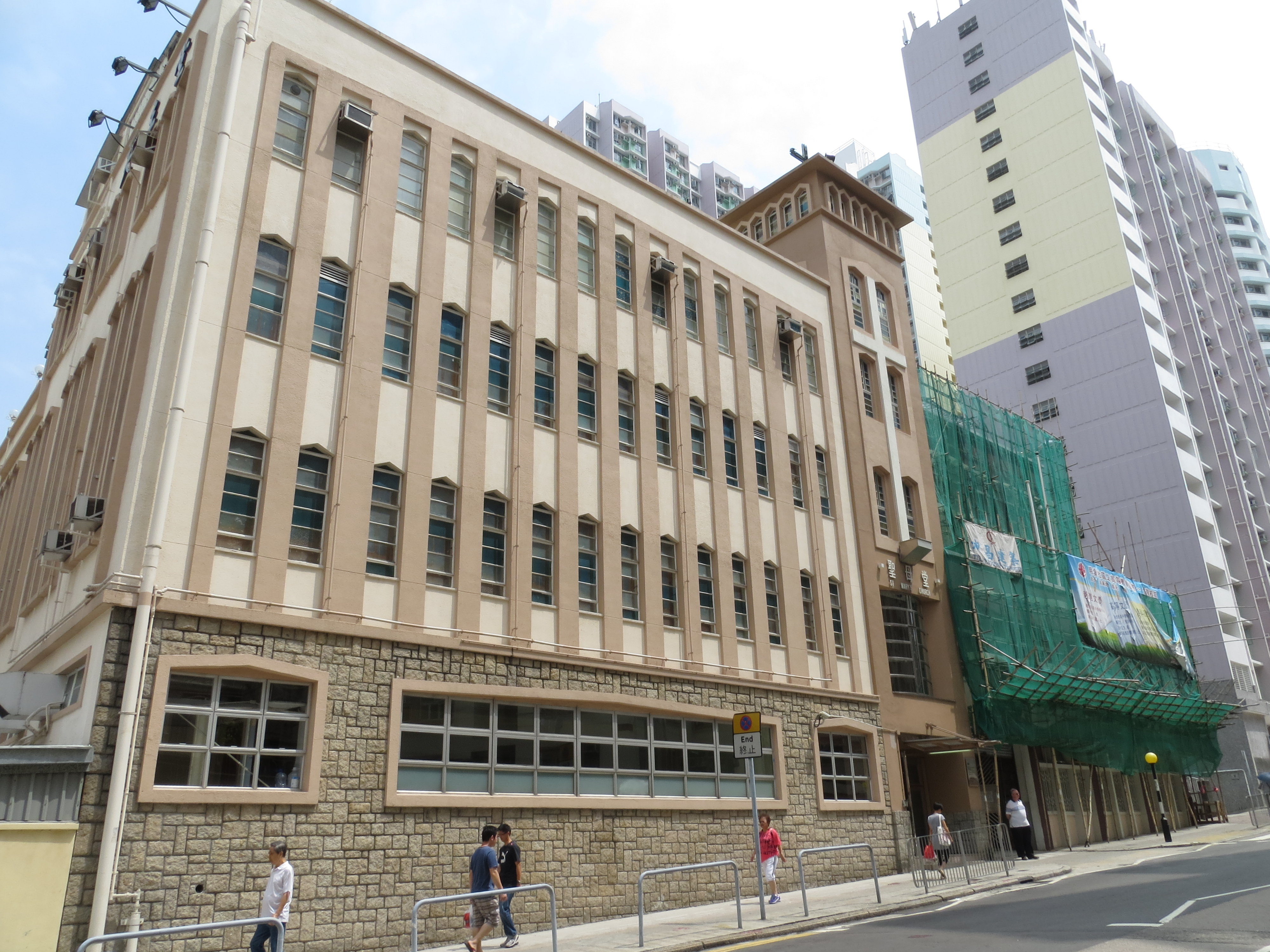 St. Mary's Church, Hung Hom, Kowloon, Hong Kong.